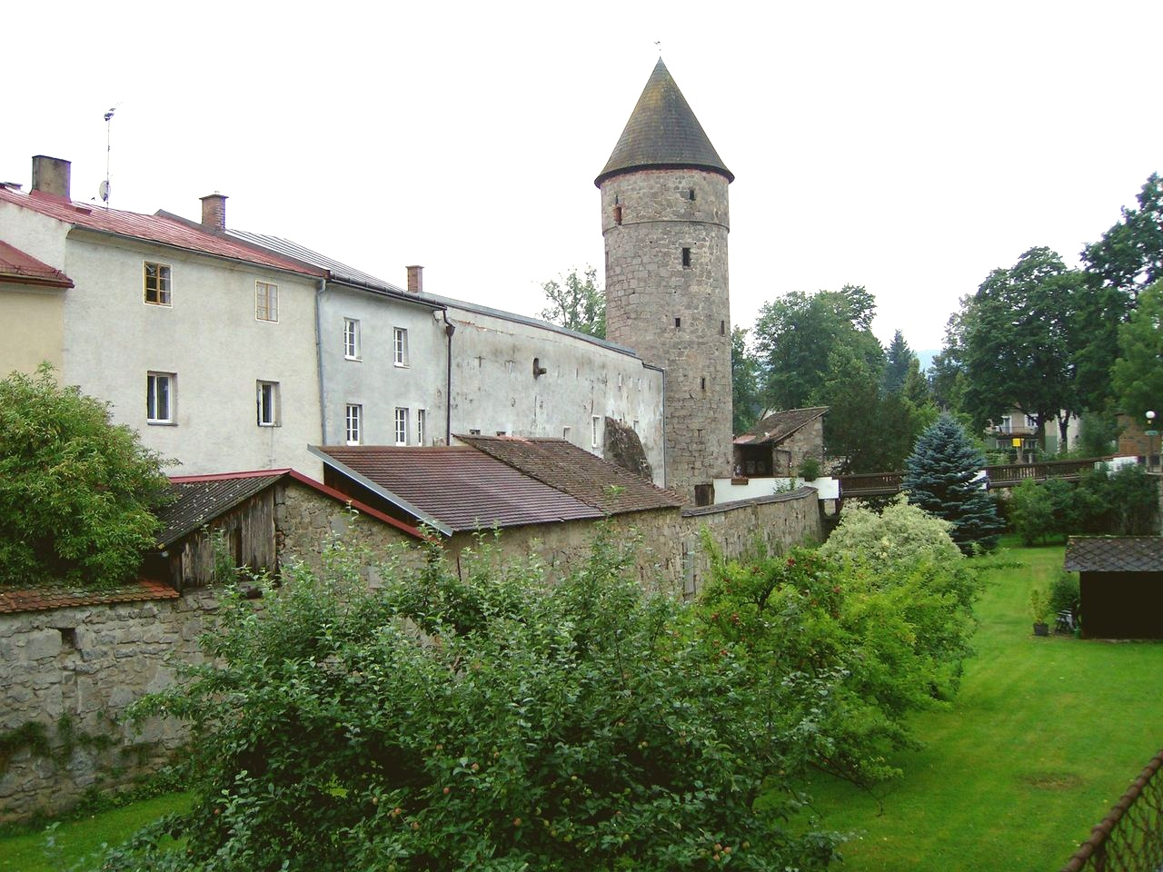 Freistadt, city wall with Scheiblingturm